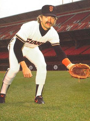 Professional baseball player Joe Pettini